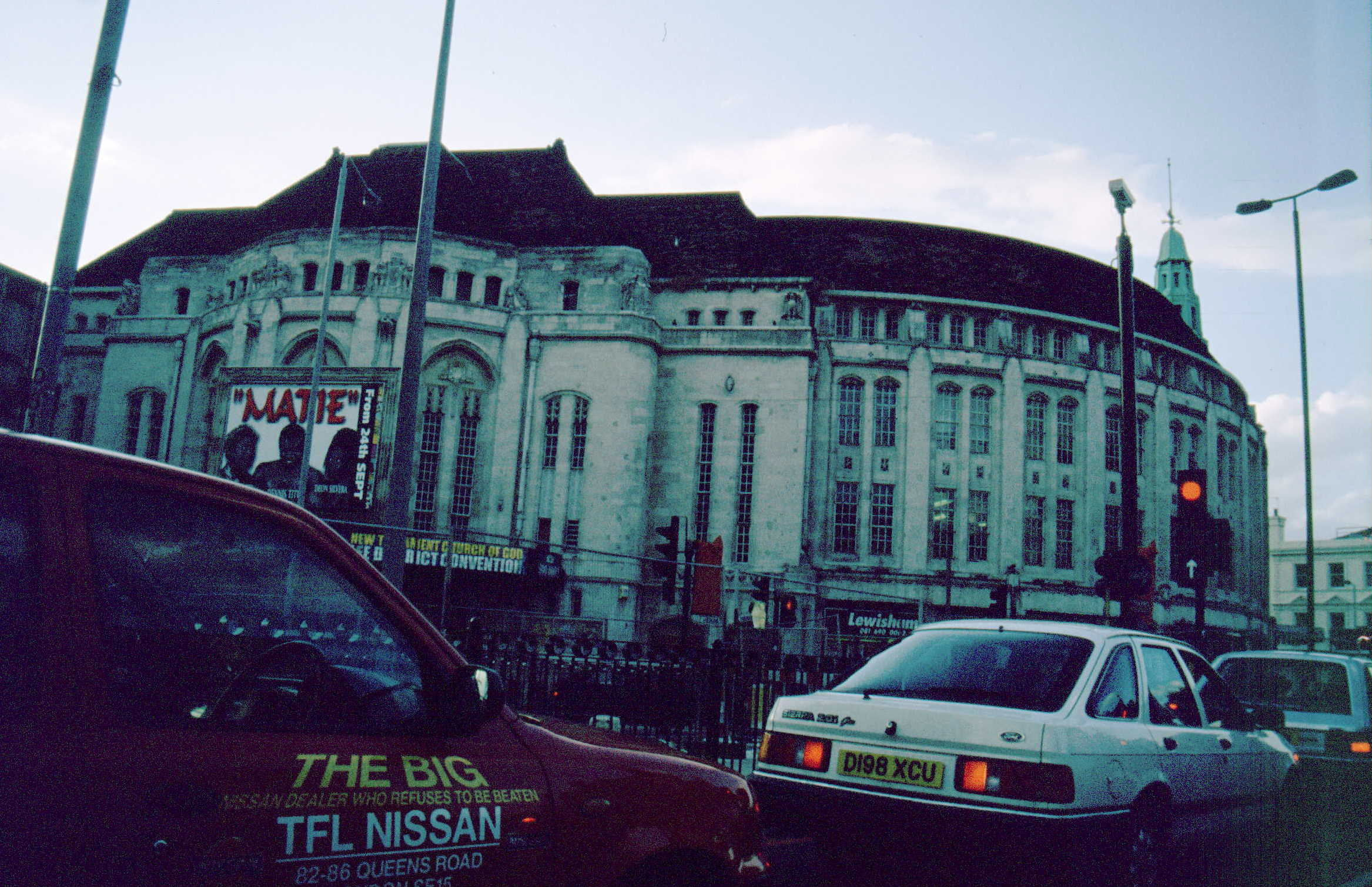 Exterior of the Broadway Theatre, previously part of Lewisham Town Hall. Architects Bradshaw Gass & Hope, built (1928-32). Photograph scanned from slide film. Date taken, about 2000, by Austen Redman.